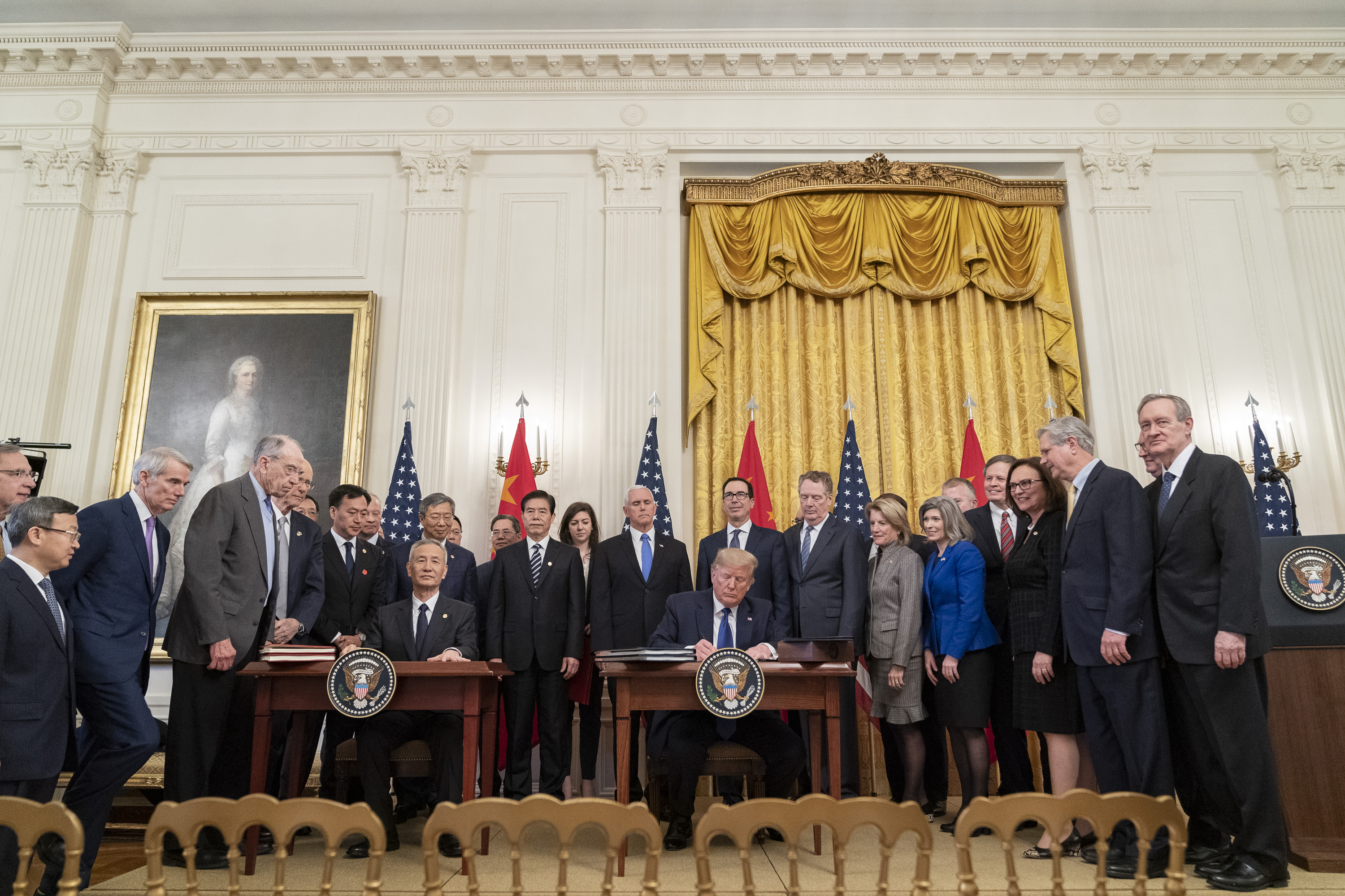 President Donald J. Trump, joined by Chinese Vice Premier Liu He, sign the U.S. China Phase One Trade Agreement Wednesday, Jan. 15, 2020, in the East Room of the White House. (Official White House Photo by Shealah Craighead)